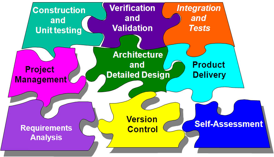 Deployment Packages to support the Basic Profile of ISO/IEC 29110-5-1-2